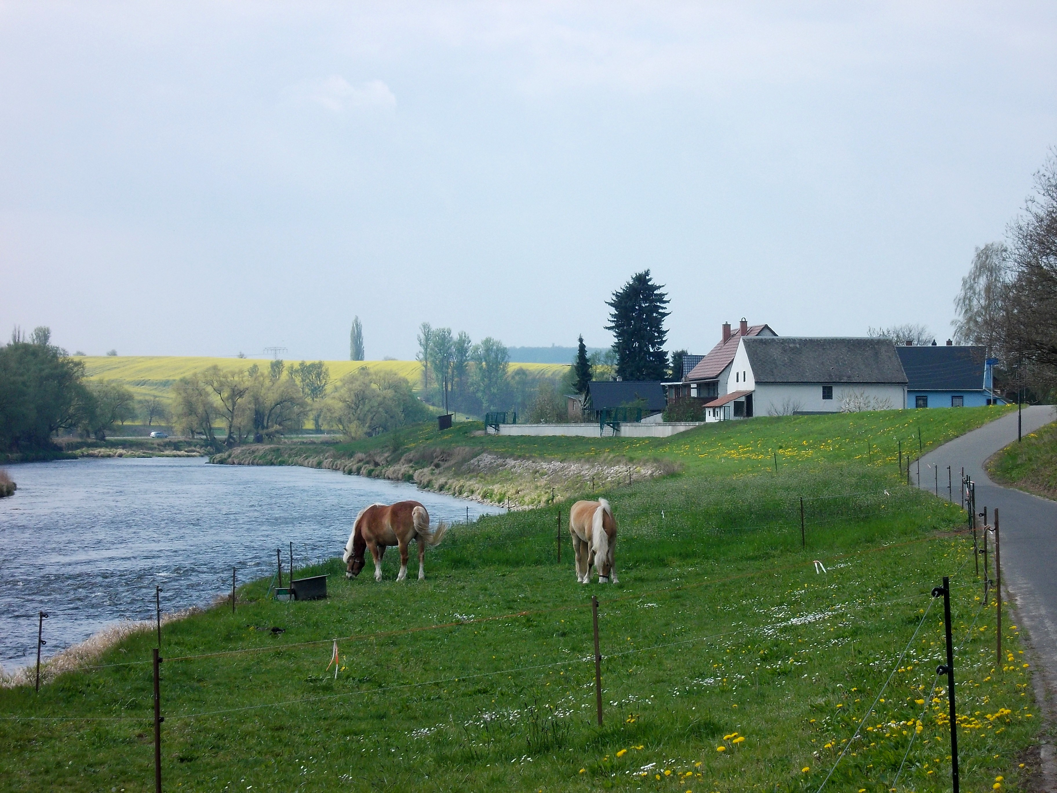 Freiberger Mulde river near Erlln (Colditz, Leipzig district, Saxony)